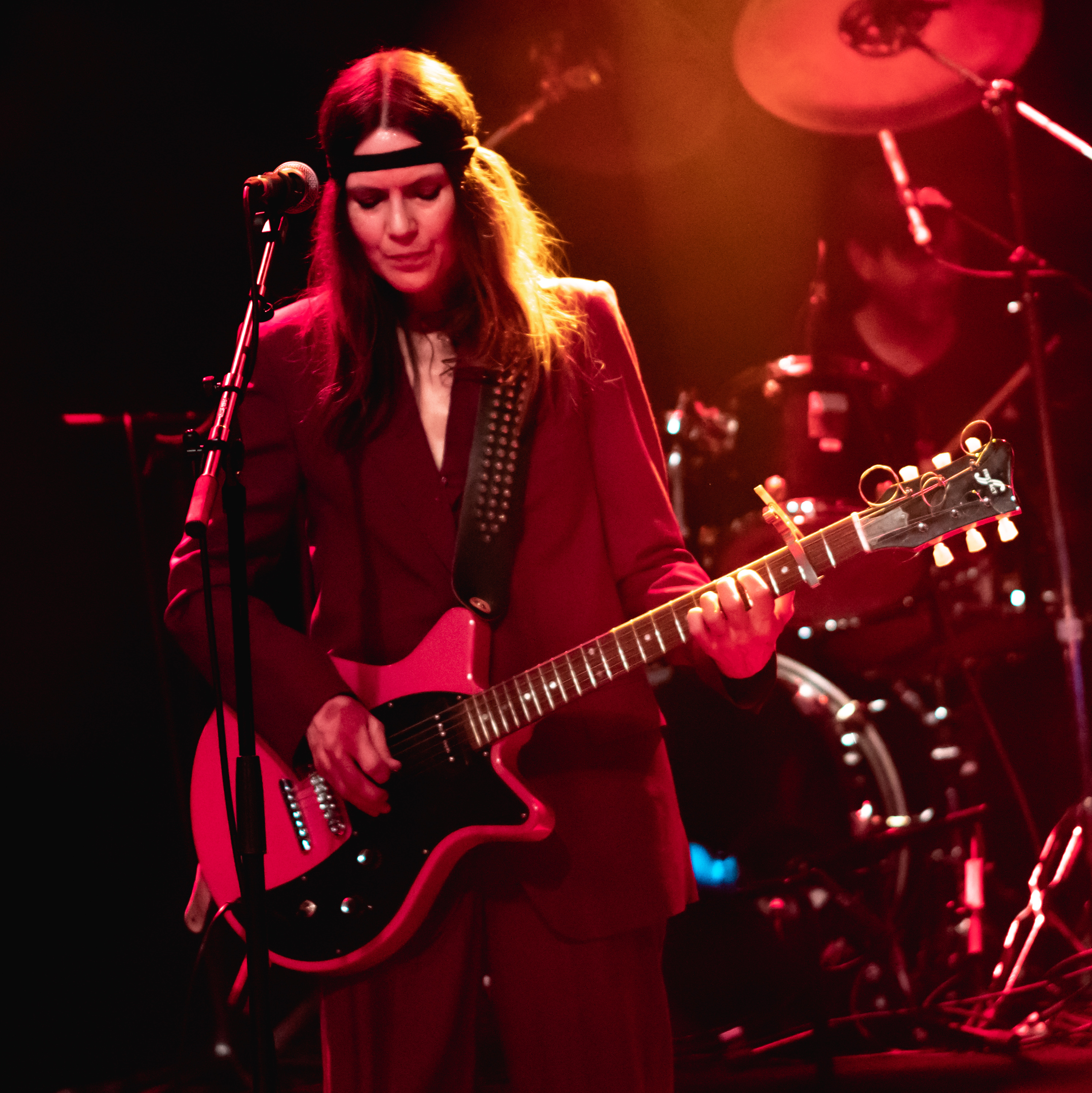 JulHatfieldAcadIsl210519-8